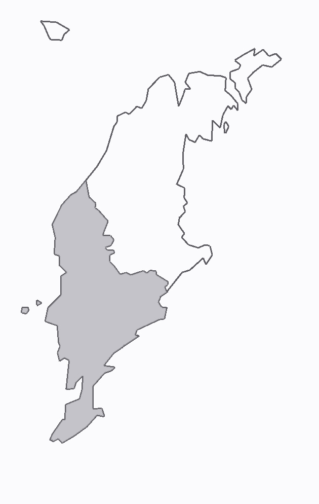 Map describing the location of Gotland Southern Hundred on the isle of Gotland, Sweden.